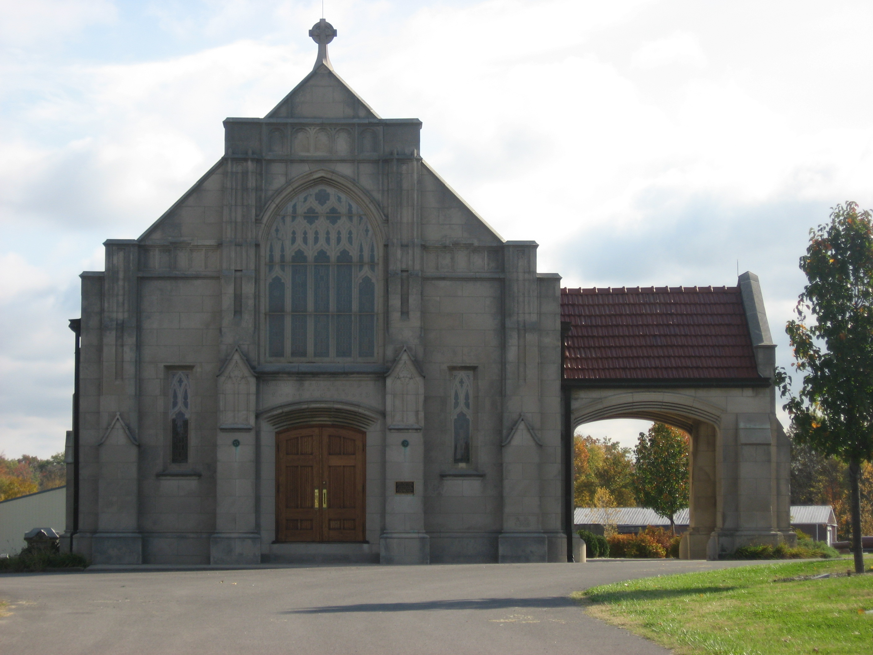 Front of the Goddard Chapel, located in Rose Hill Cemetery along Court Street (Illinois Route 37) in Marion, Illinois, United States. Built in 1918, it is listed on the National Register of Historic Places.